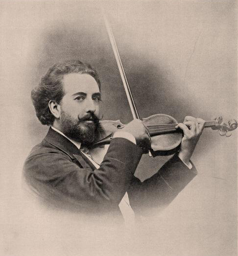 Belgian violinist Martin Pierre Joseph Marsick (1847—1924), portrait published in New York in 1895.